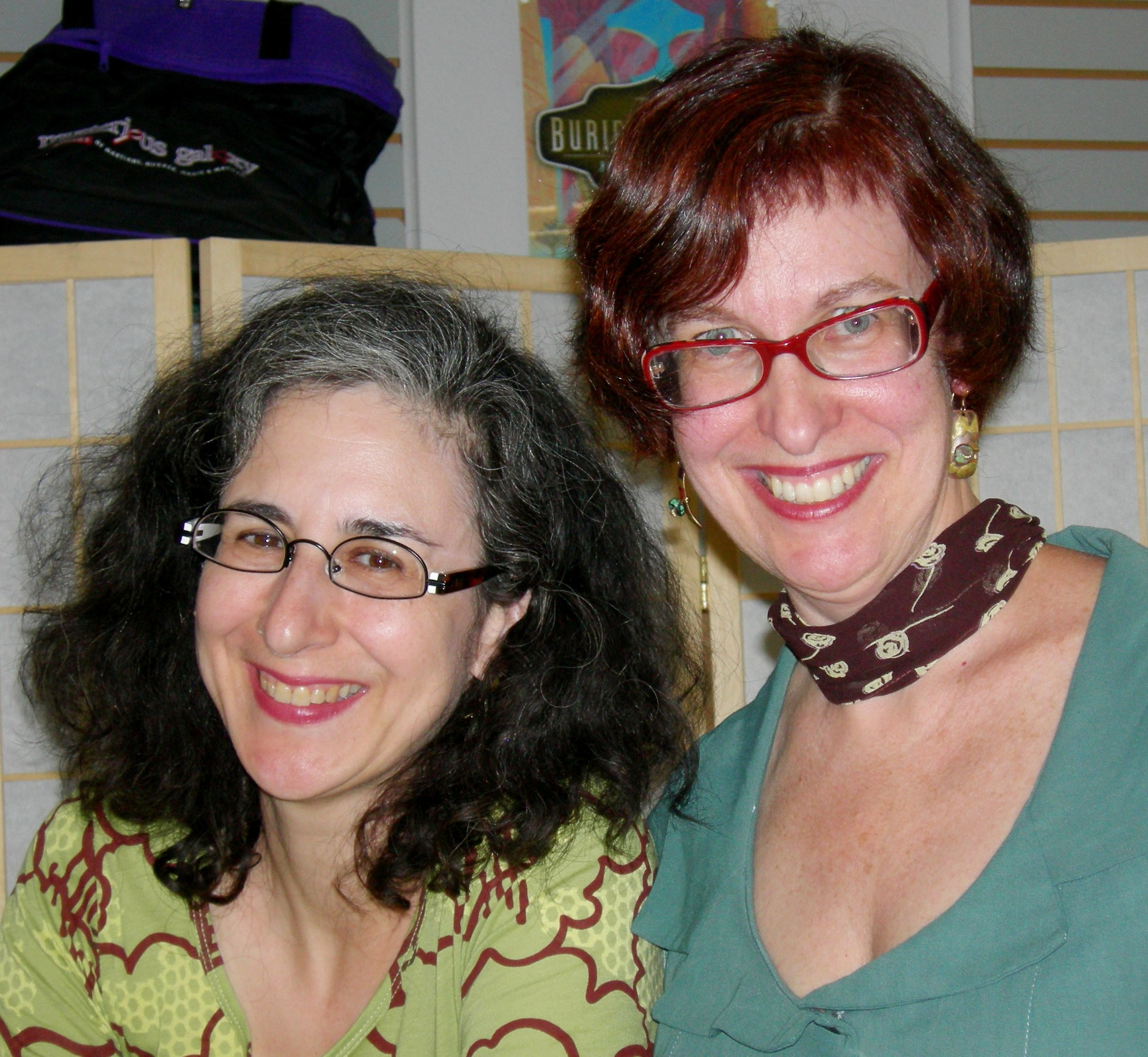 Ellen Kushner and Delia Sherman. Photograph by Keyan Bowes